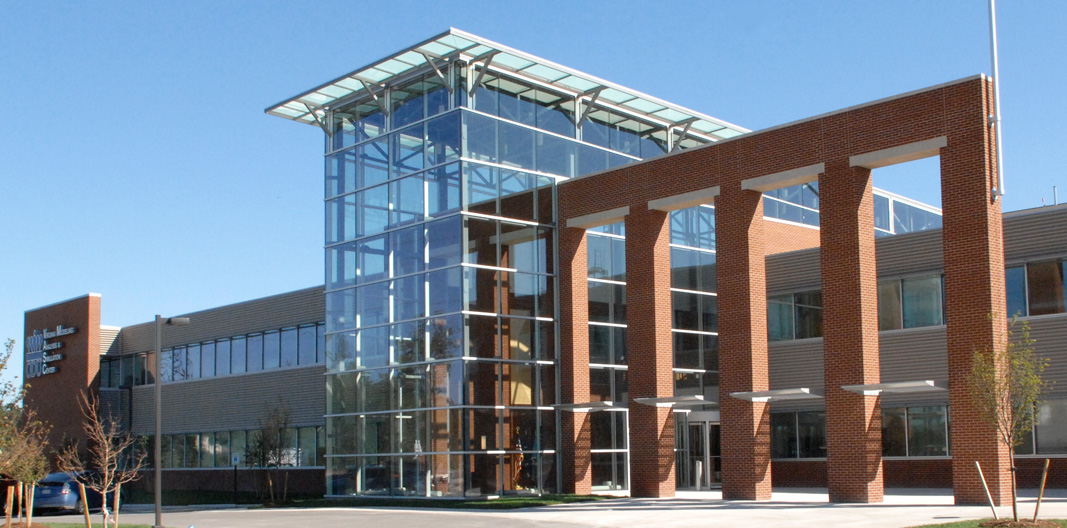 Virginia Modeling, Analysis, and Simulation Center located in Suffolk, VA